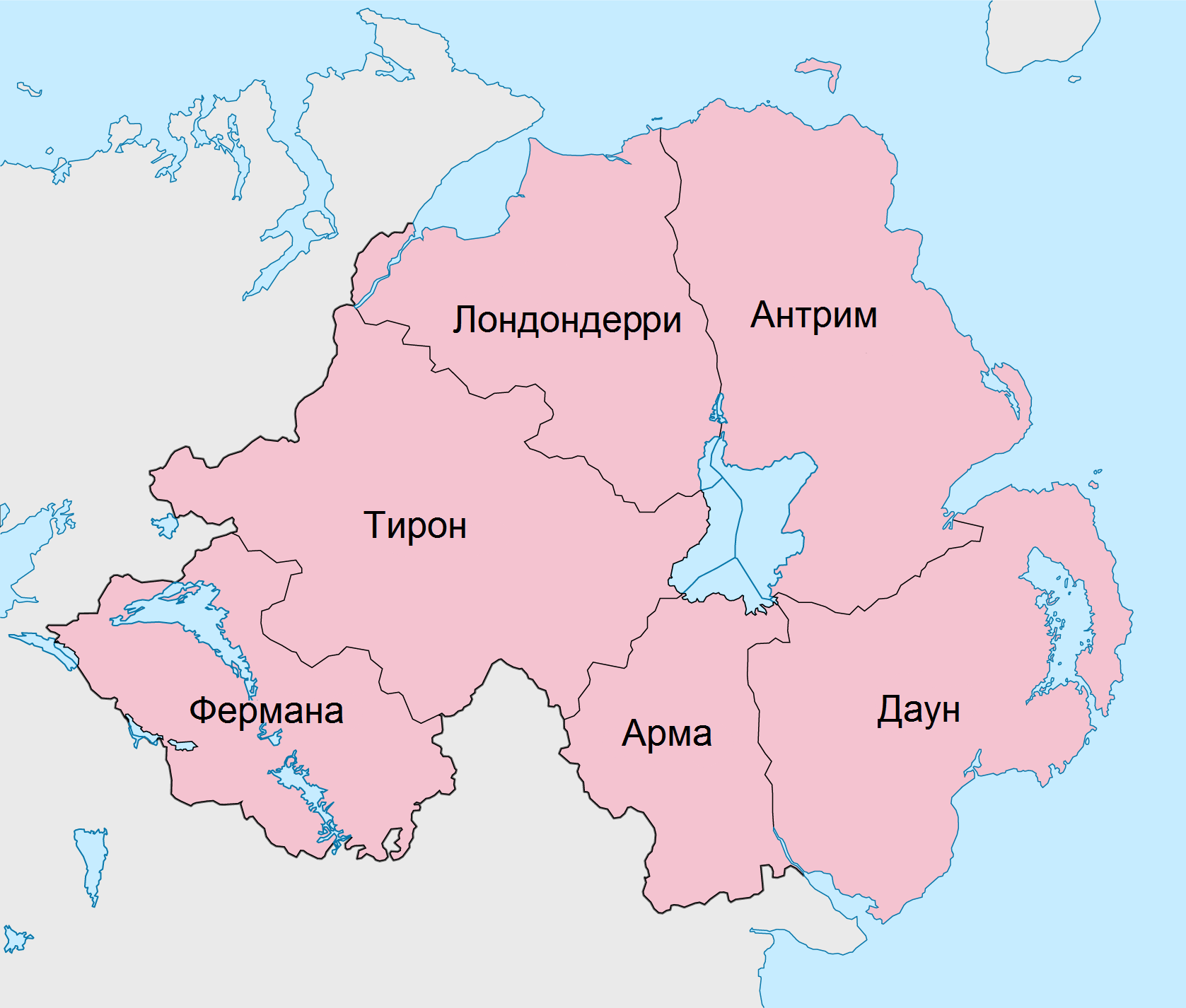 Map in Russian of the counties of Northern Ireland.